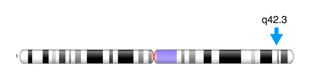 Locus de la mutación del gen LYST.